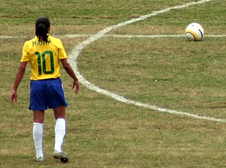 Marta during the final of the 2007 Pan American Games (cropped from Image:Marta-2.jpg)